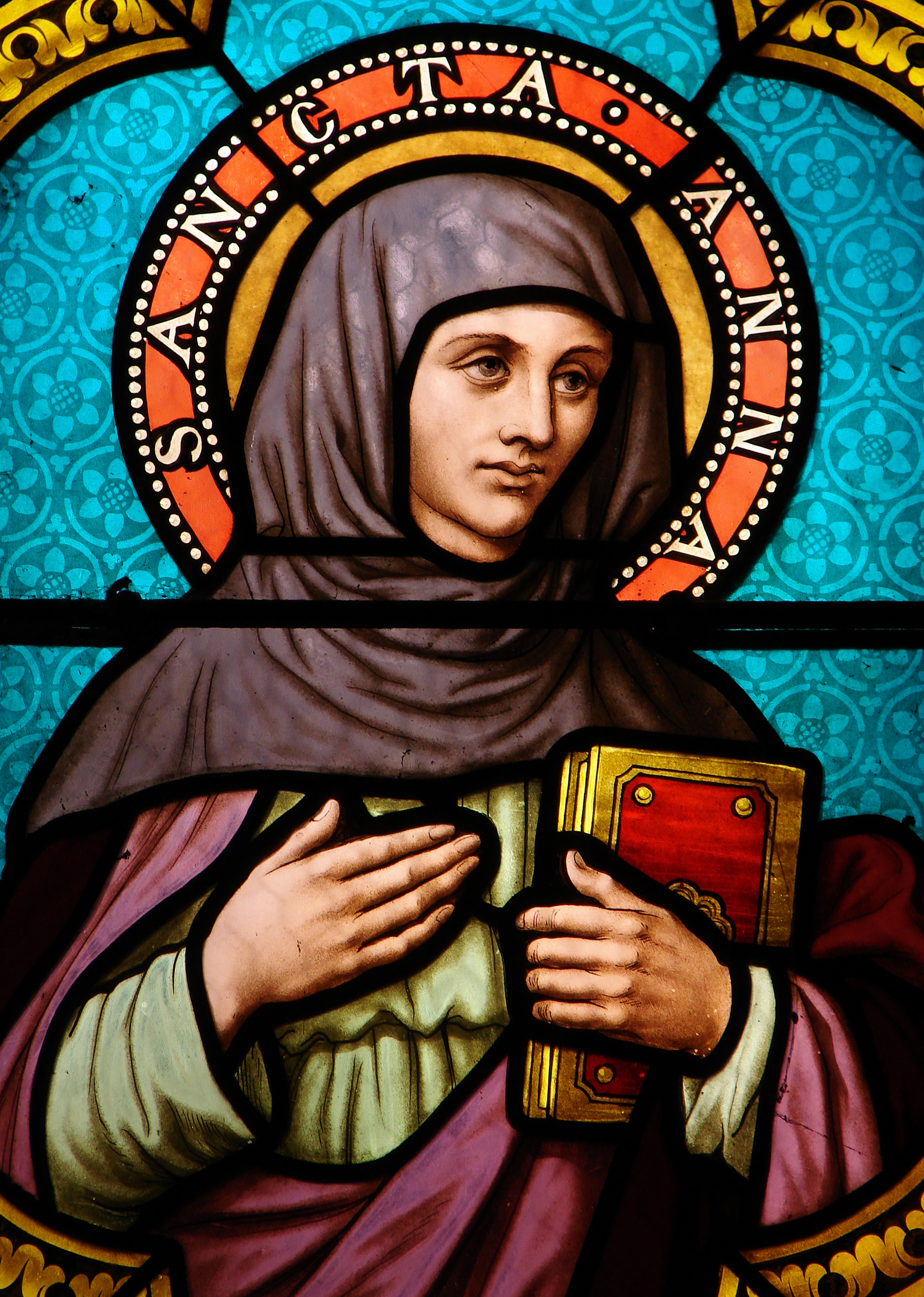 Gothic revival stained glass window (1888), Saint Martin Church, Arc-en-Barrois, Haute-Marne, France. Saint Anne.